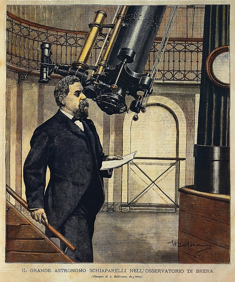 Scan of the first page of the edition of the "La Domenica del Corriere", an Italian magazine (oct. 28, 1900), with a drawing of Achille Beltrame depicting the Italian astronomer Giovanni Schiaparelli (1835 – 1910)